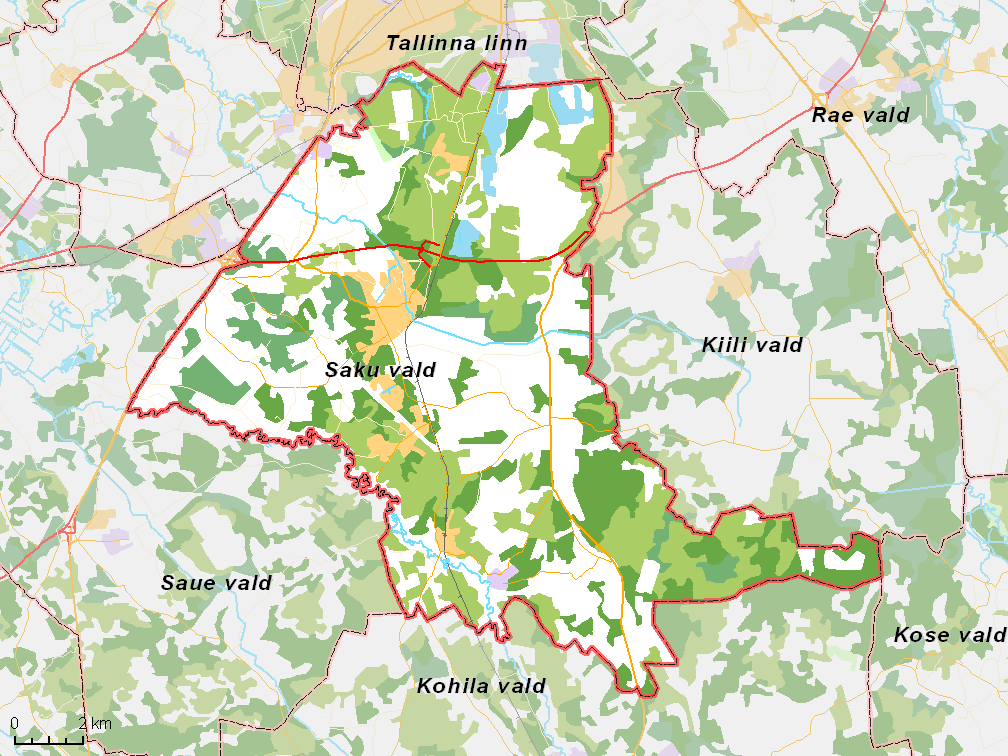 Map of municipality in Estonia